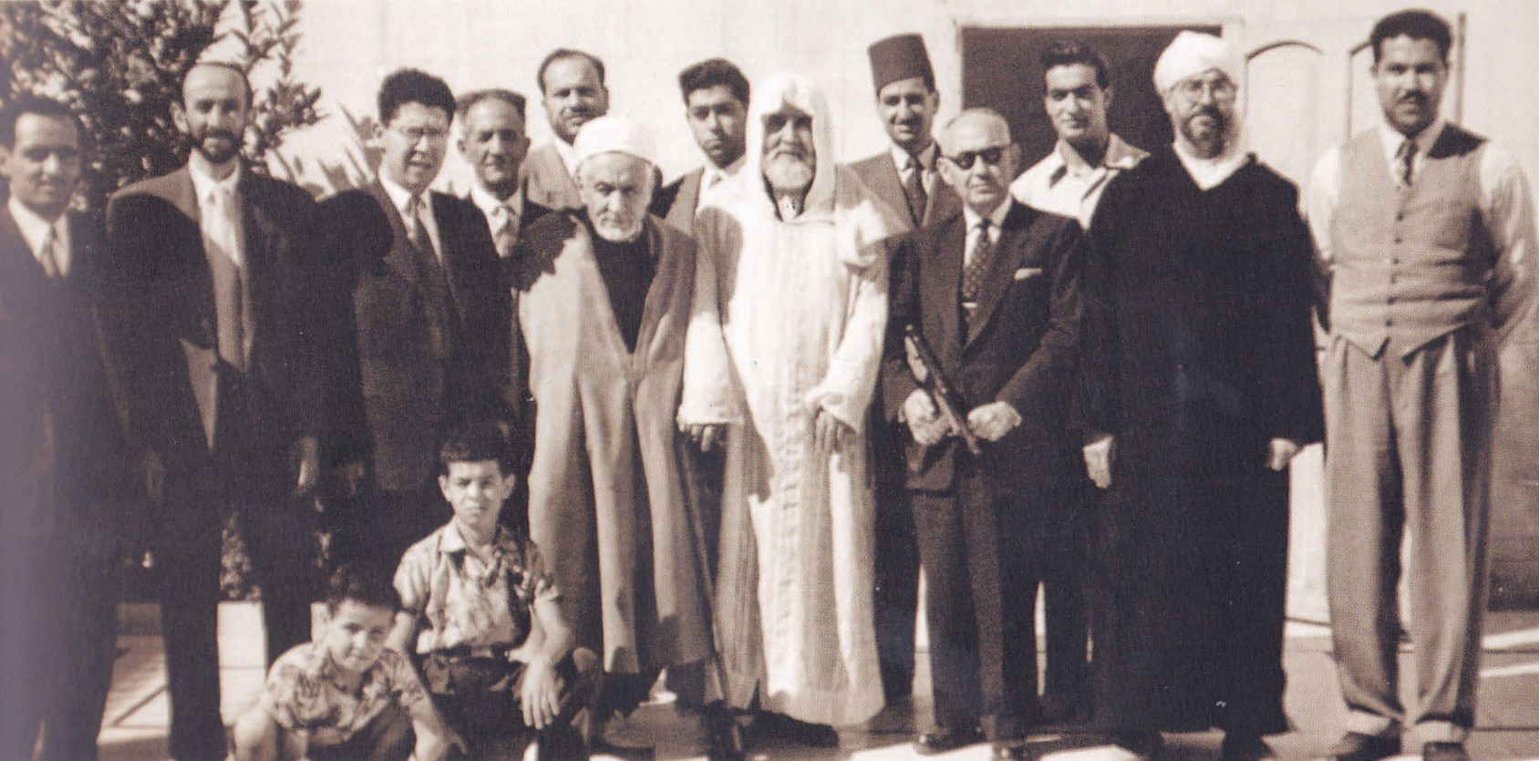 De gauche a droite en deuxième position Cheikh Omar Derdour avec au centre Cheikh Bachir El-Ibrahimi et Ahmed Tawfik El-Madani (Portant des lunettes) a Damas dans la maison de Cheikh El-Ketani